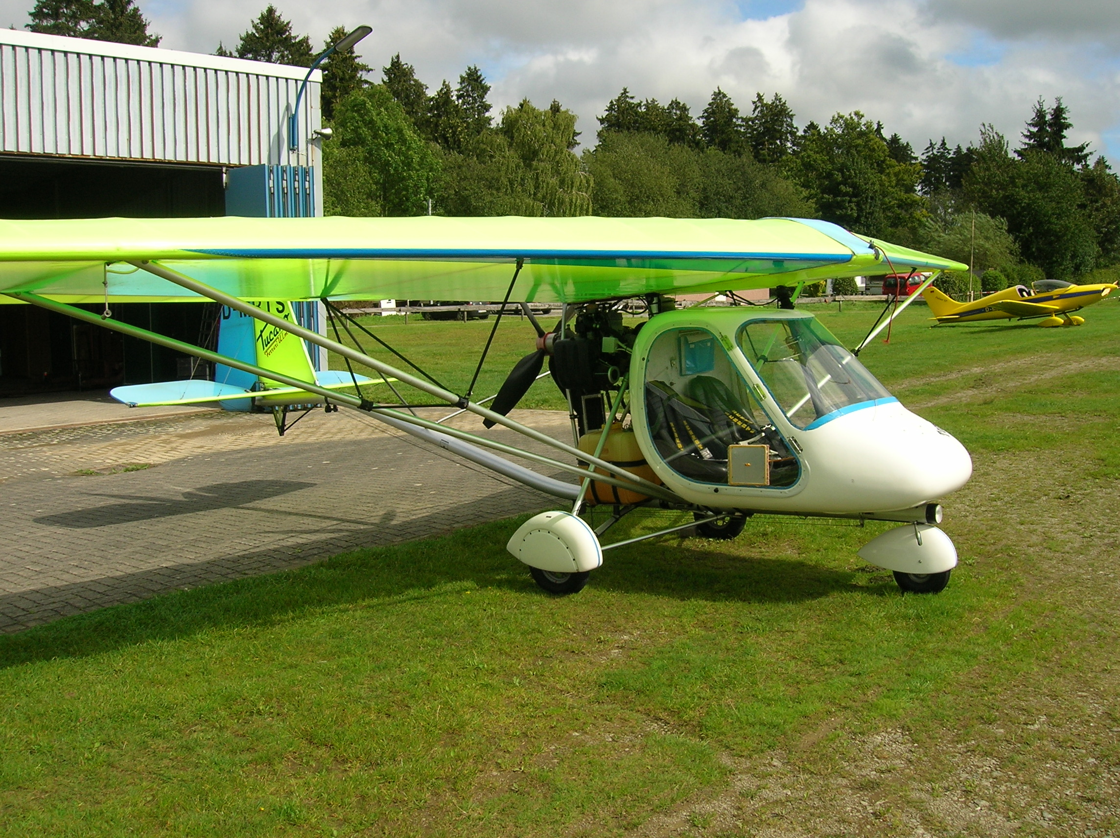 A Flylab Tucano (probably version V) during the „Bergfliegen 2011“ at Schmallenberg airfield